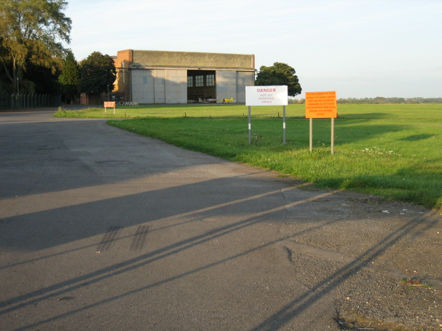 Bicester Airfield. Home of Windrushers Gliding Club. Formerly an RAF airfield but now rented to the gliding club.